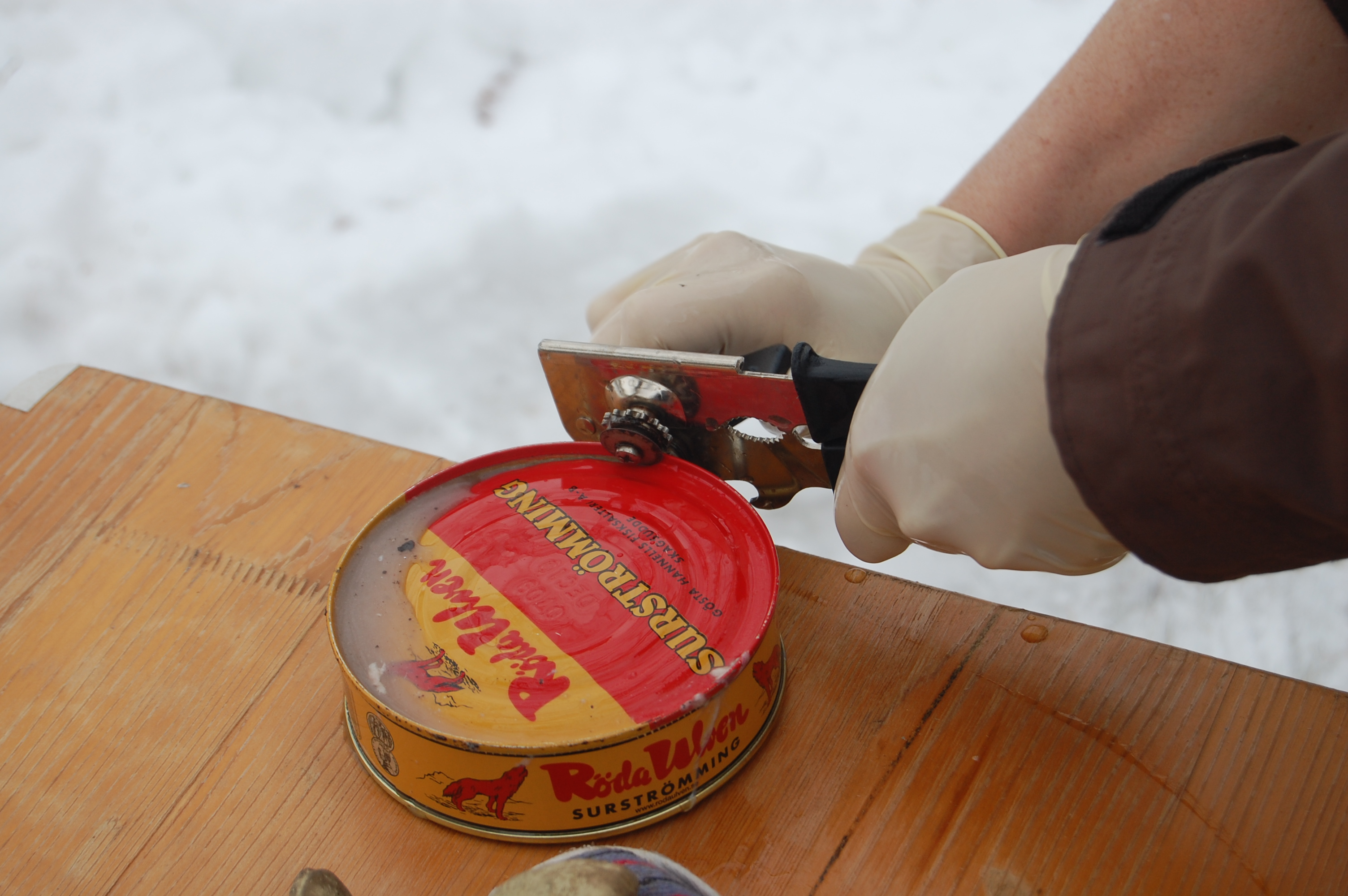 First Überbacher Surstömming Contest in Neuerkirch, Hunsrück landscape, Germany. 2010-01-16